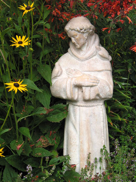 Uploaded by photographer.